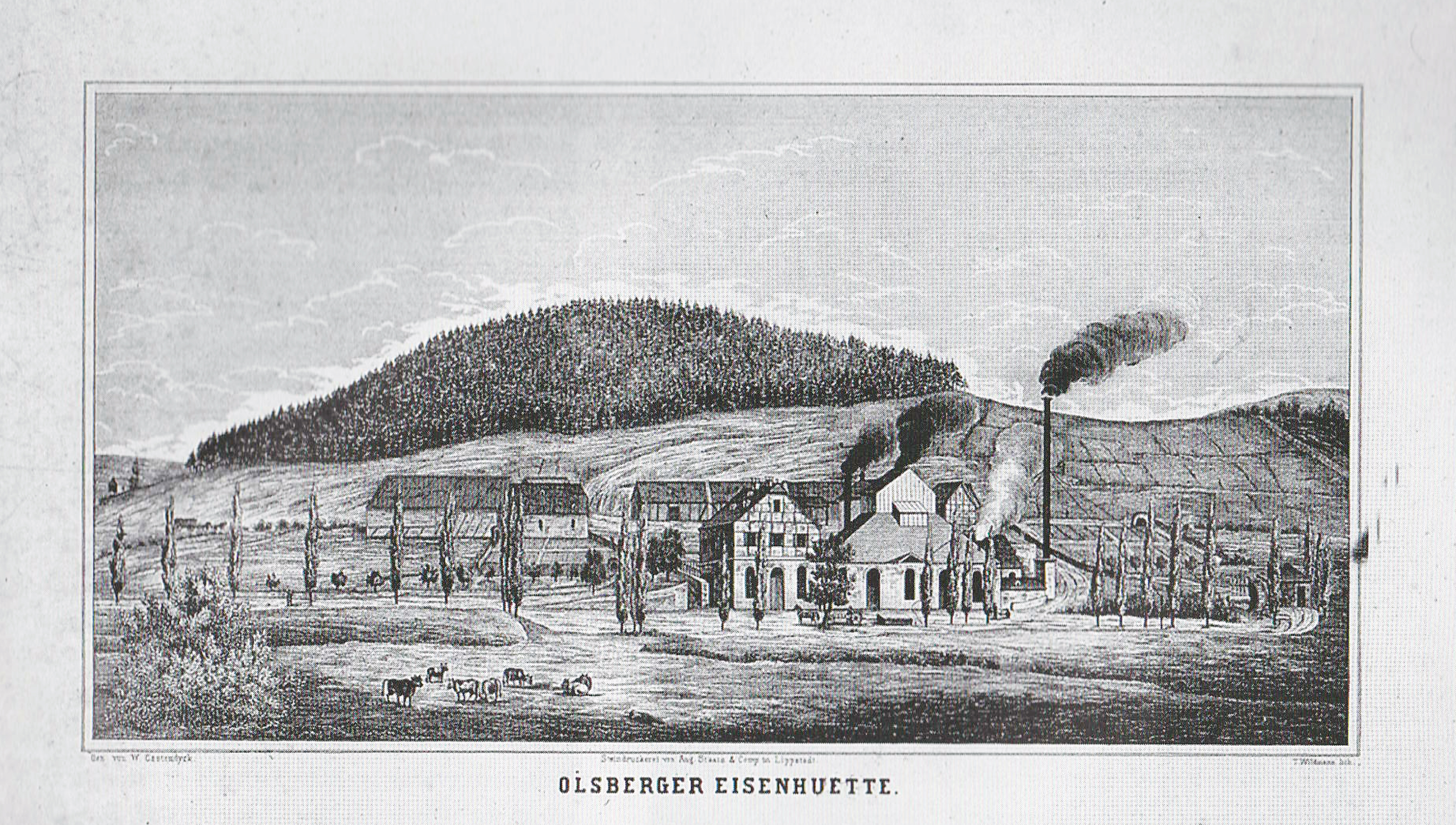 Die Olsberger Hütte, Lithografie nach einer Zeichnung von W. Castendyck